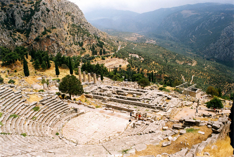 Own picture. Taken in august 2003.